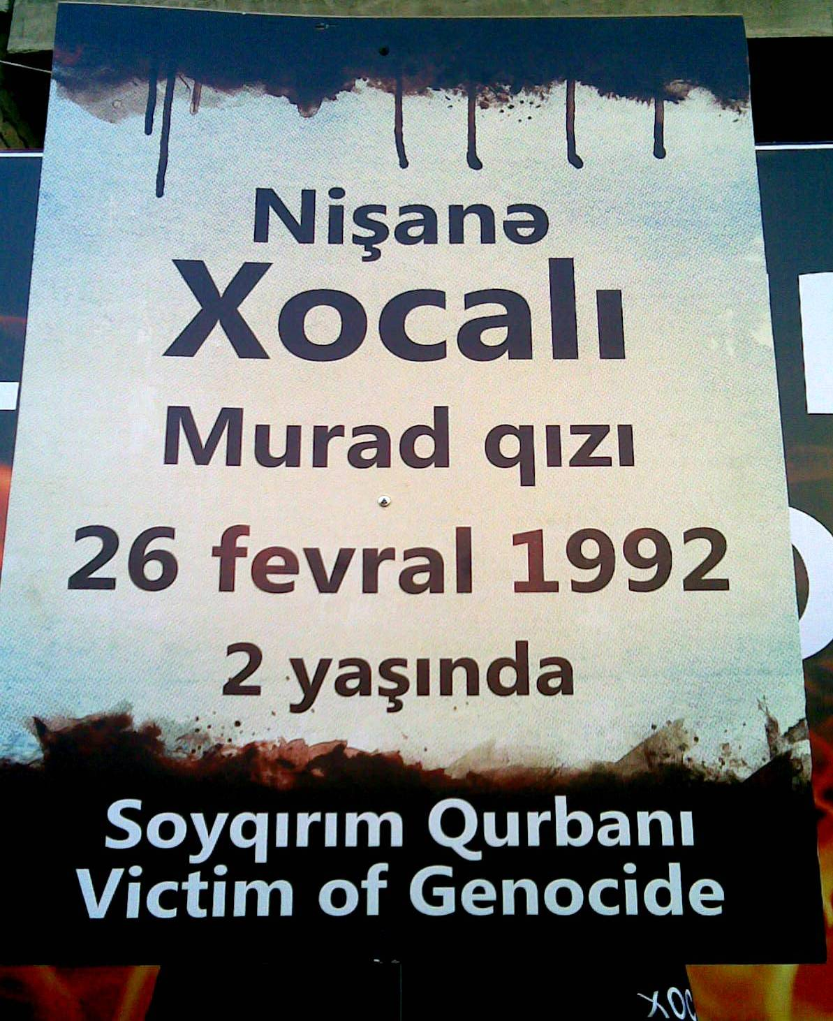 Khojaly 20